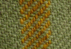 Very basic twill weave (technically a 2/2 twill). This is probably the second most simple weave after plain weave. Note the distinctive diagonal lines. This is from an old sampler and therefore is a bit messy, but the yarn is big and the spacing is fairly even, clearly demonstrating the basic pattern.